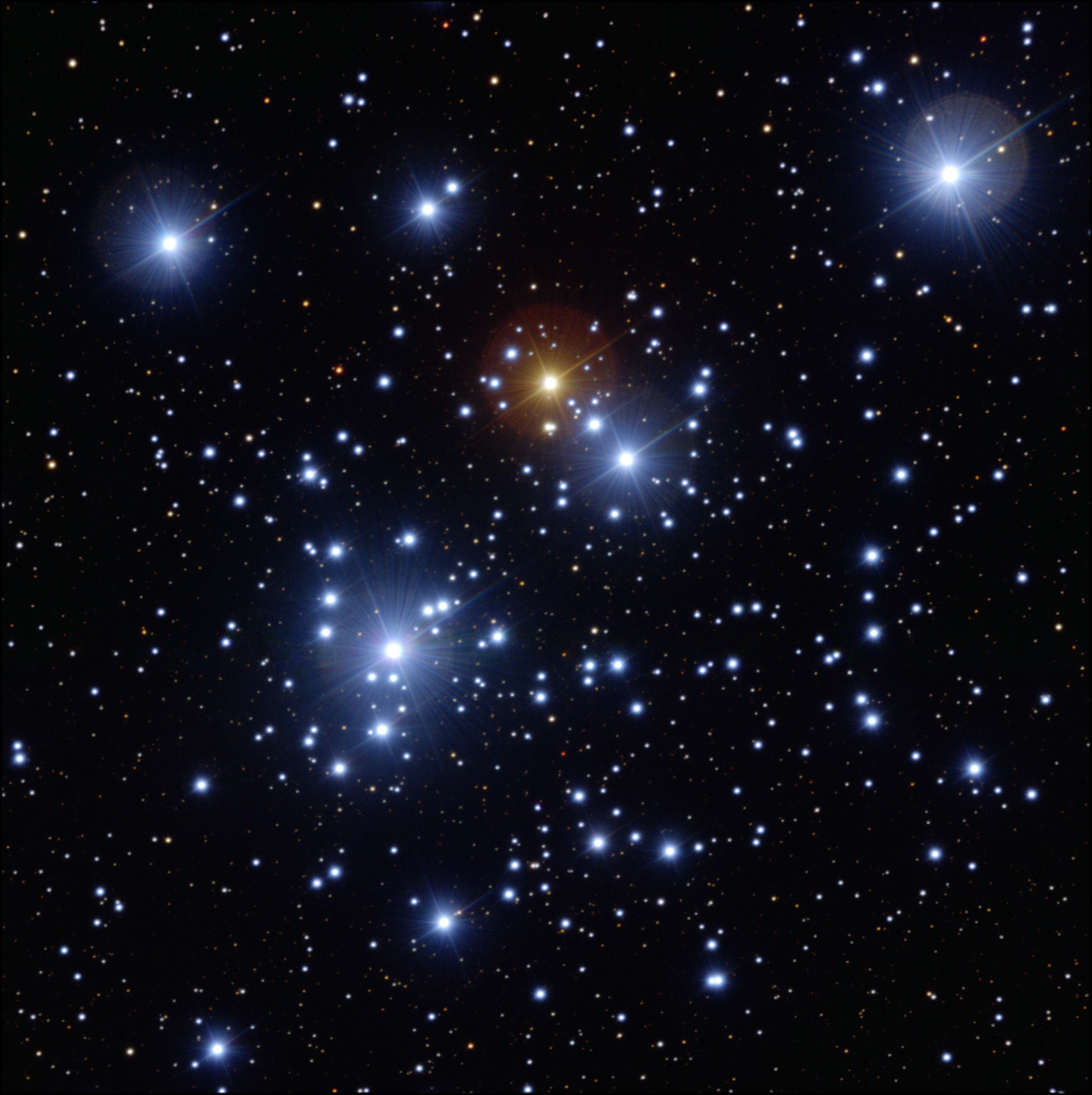 The FORS1 instrument on the ESO Very Large Telescope (VLT) at ESO’s Paranal Observatory was used to take this exquisitely sharp close up view of the colourful Jewel Box cluster, NGC 4755. The telescope’s huge mirror allowed very short exposure times: just 2.6 seconds through a blue filter (B), 1.3 seconds through a yellow/green filter (V) and 1.3 seconds through a red filter (R).